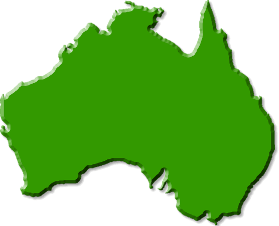 Mainland Australia map.